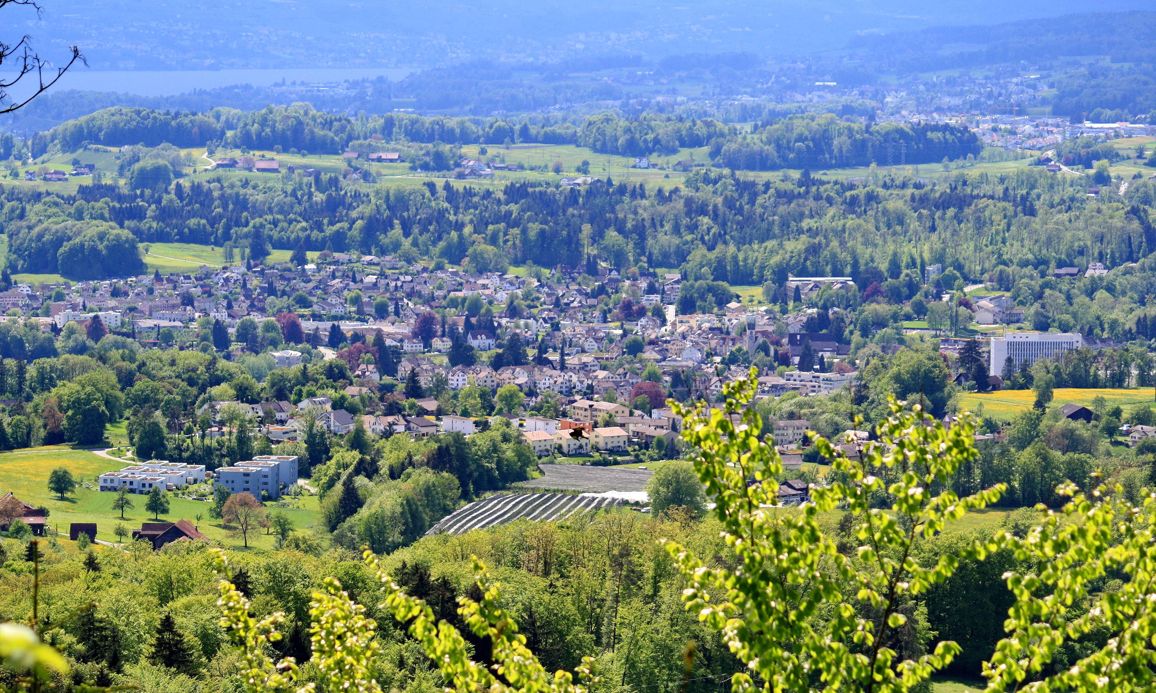 Rüti (Switzerland) as seen from Batzberg, Zürichsee, Hombrechtikon and eastern Pfannenstiel in the background to the right.